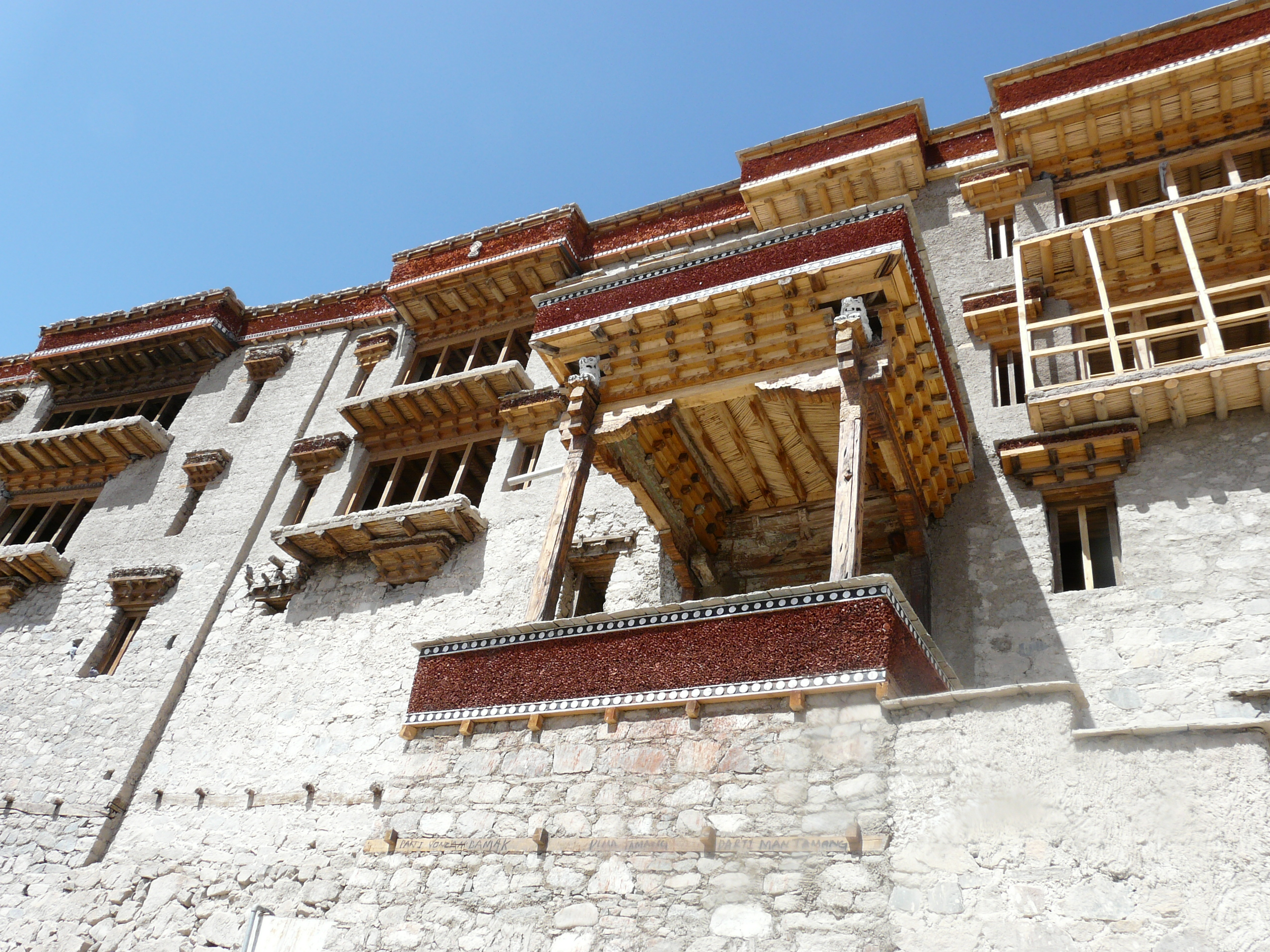 Shey is a town in Ladakh that has the old summer Palace of the kings of Ladakh. It is located 15 km. from Leh towards Hemis. This is a picture of the Shey Palace.